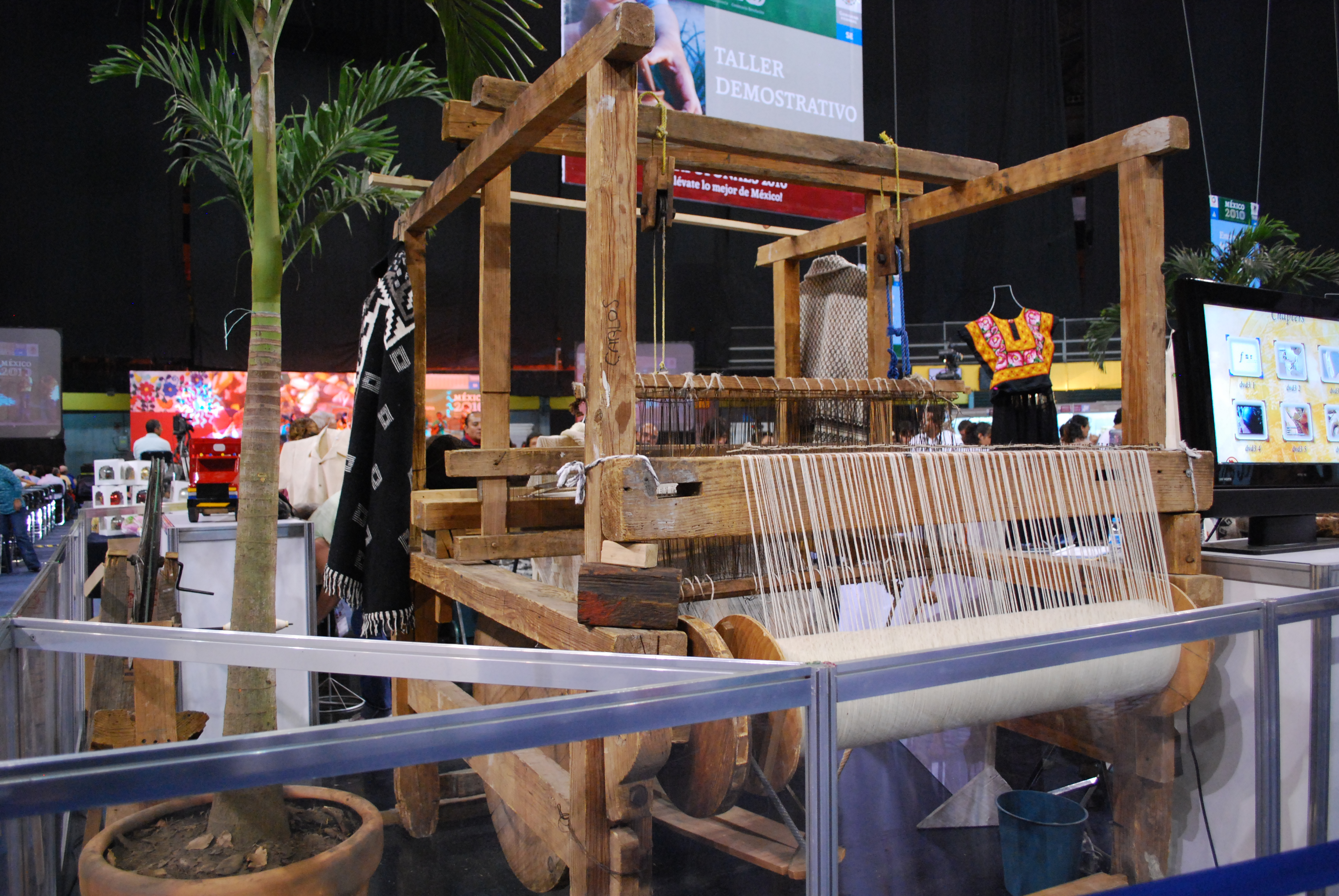 Loom on display at the 2010 FONART exhibition in Mexico City